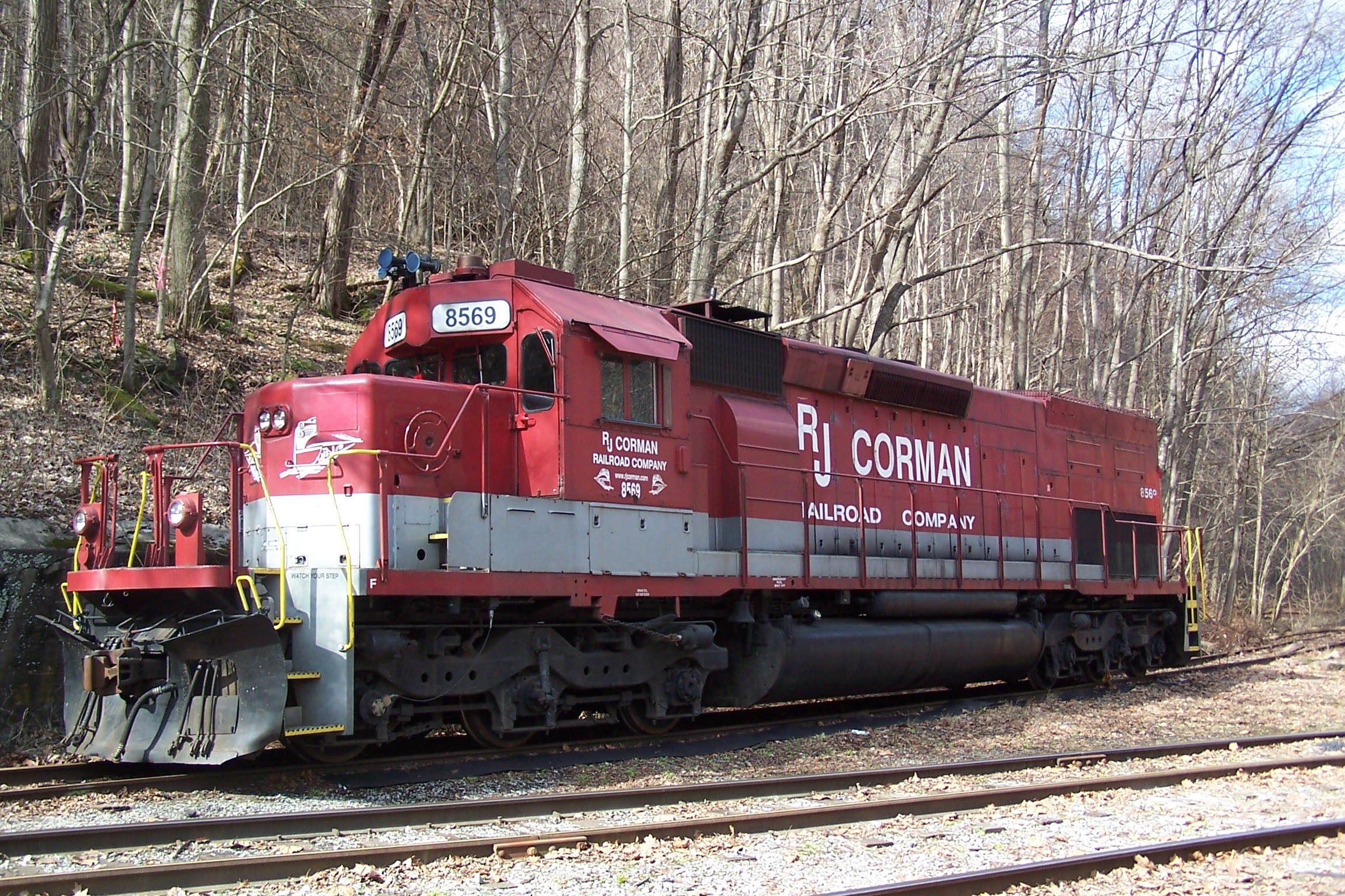 RJ Corman # 8569, a SD40T-2, waits for its next assignment just across the river from Thurmond WV.